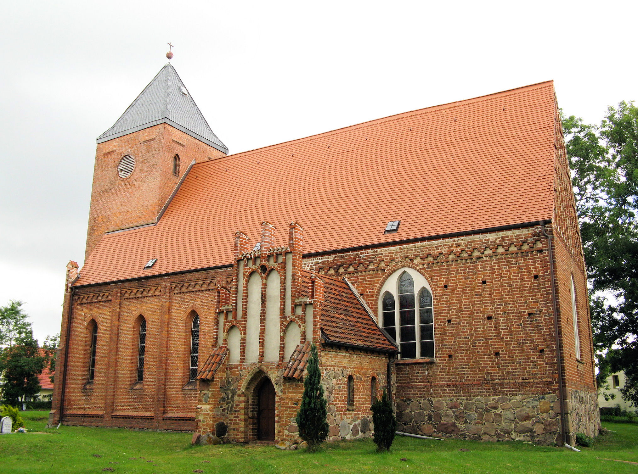 Church in Kambs, disctrict Rostock, Mecklenburg-Vorpommern, Germany